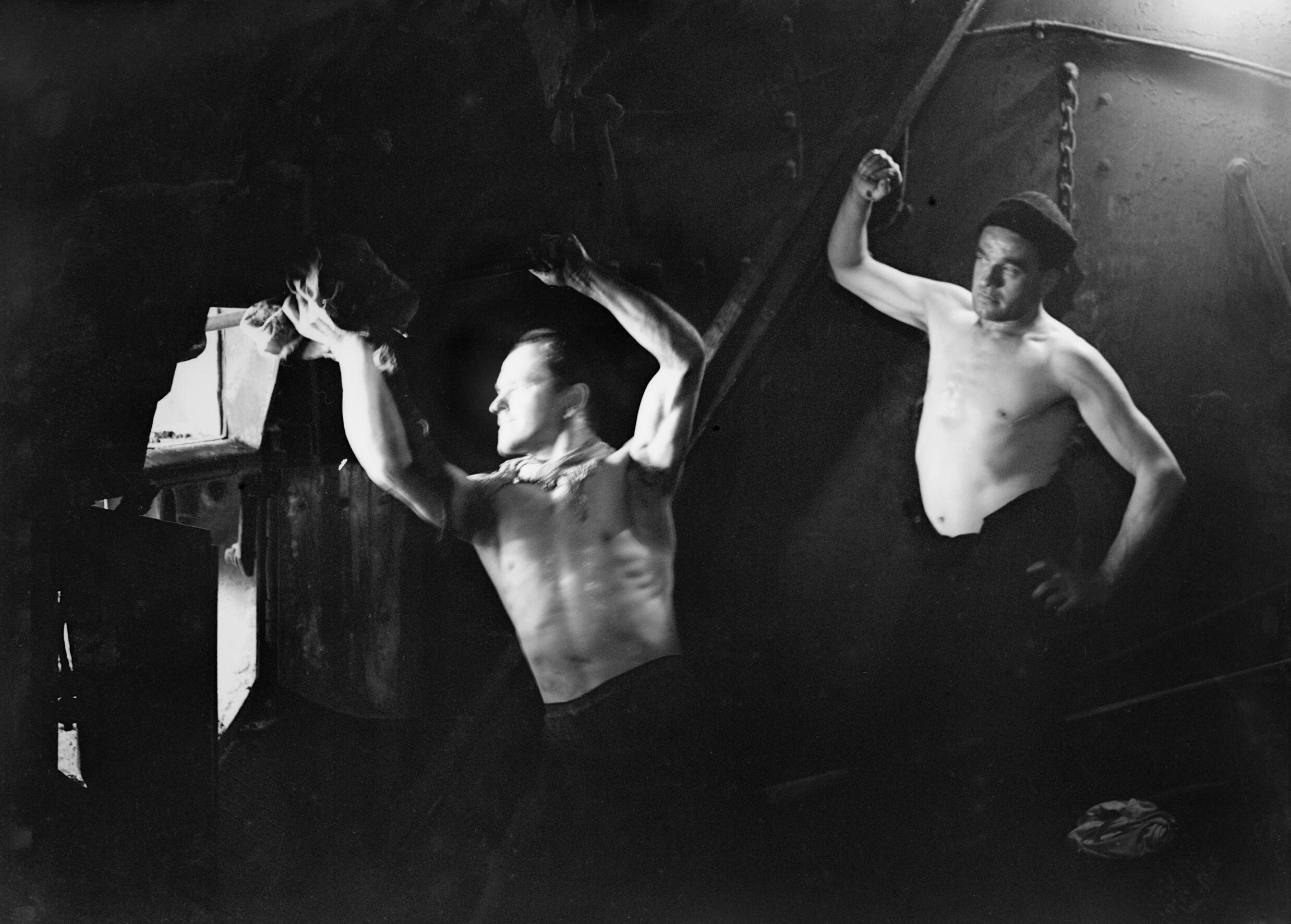 Stokers in the boiler room on board HMT STELLA PEGASI, Scapa Flow, 6 June 1943. A scene in the boiler room showing a bare chested stoker raking his fire while a similarly dressed shipmate takes a breather on board HMT STELLA PEGASI based at Scapa Flow.